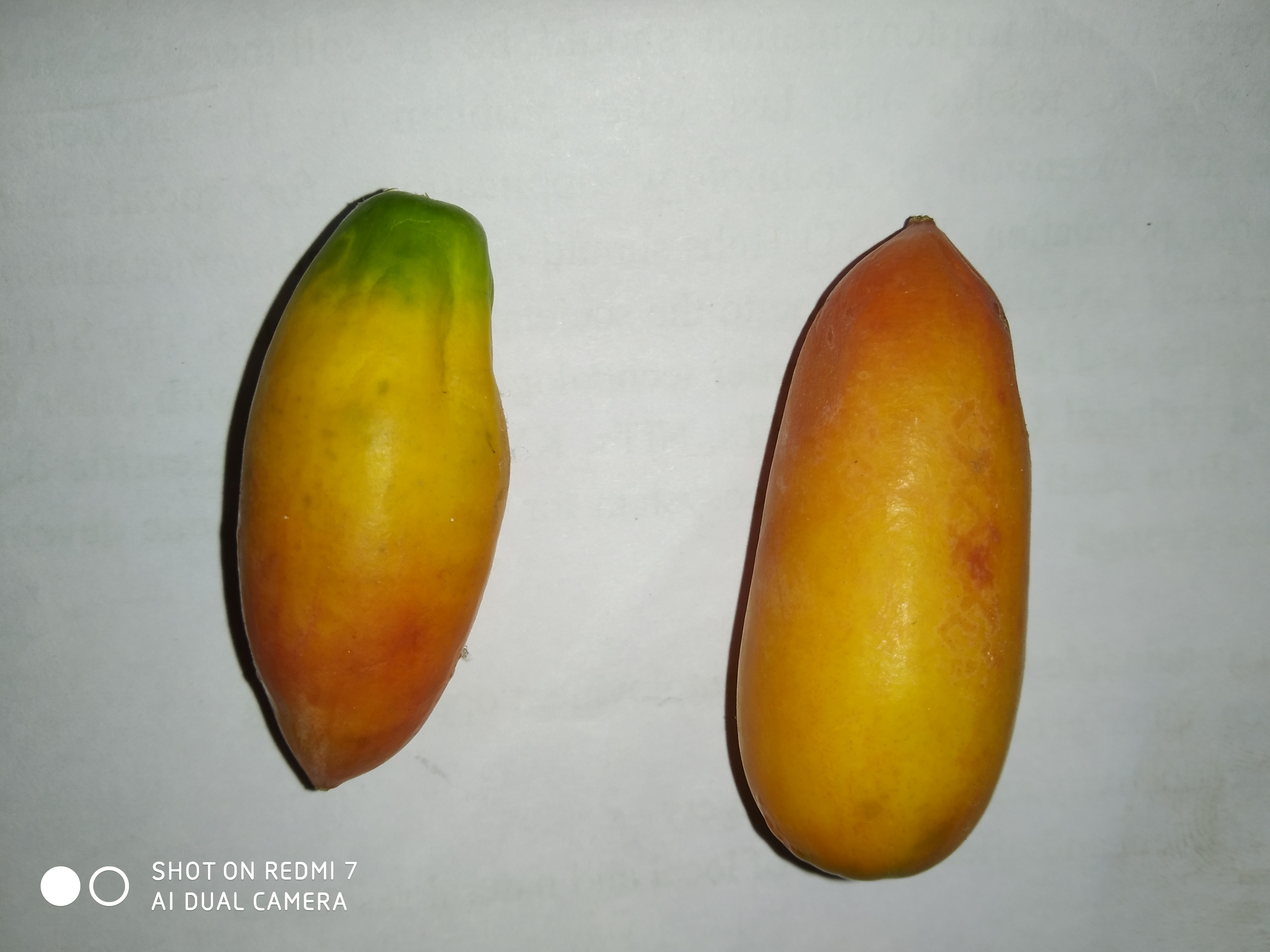 It grows primarily in tropical climates and is commonly found in the southern Indian states, where it forms a part of the local cuisine. Coccinia grandis is cooked as a vegetable.